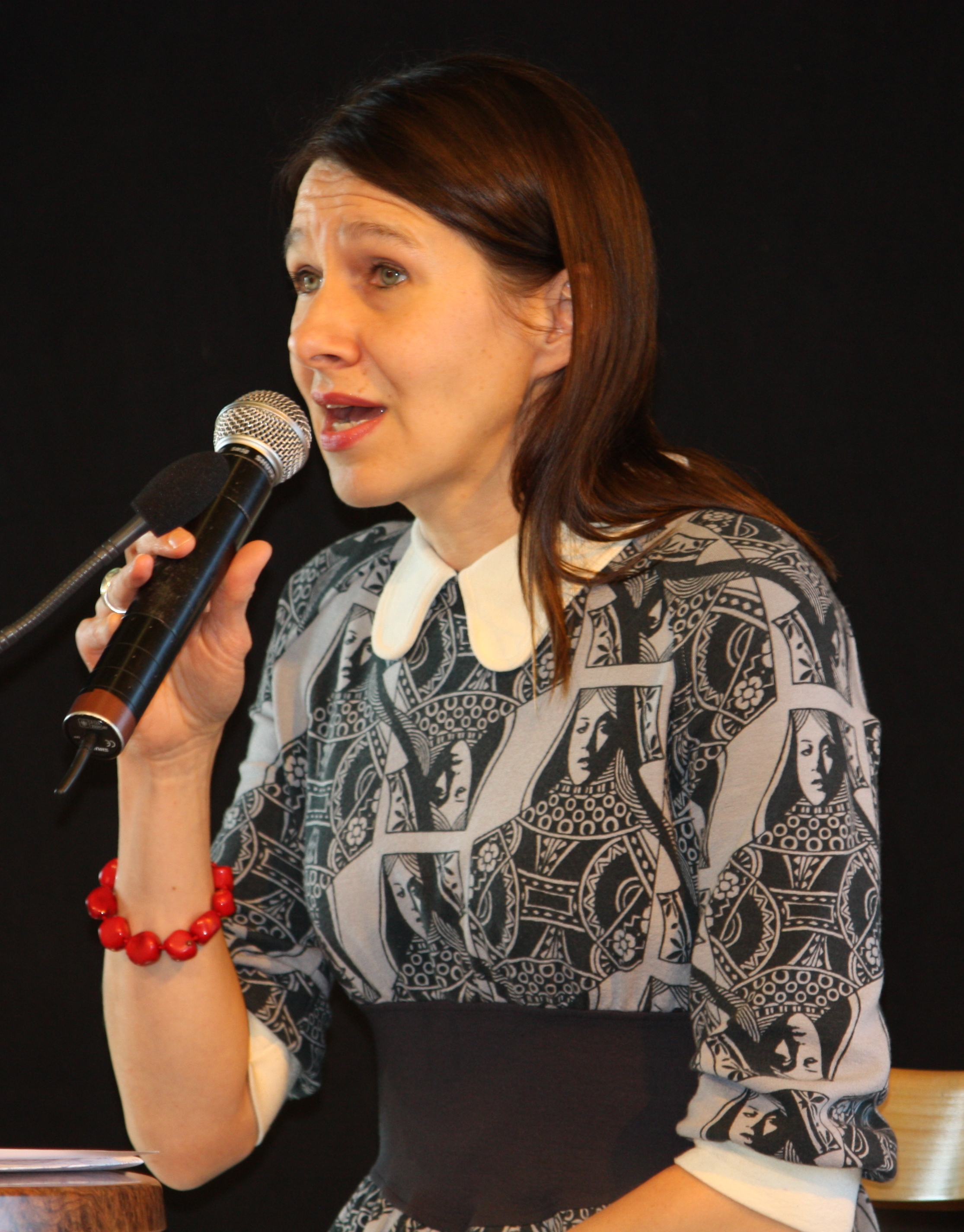 Finnish writer Riina Katajavuori at the Turku Book Fair 2010.